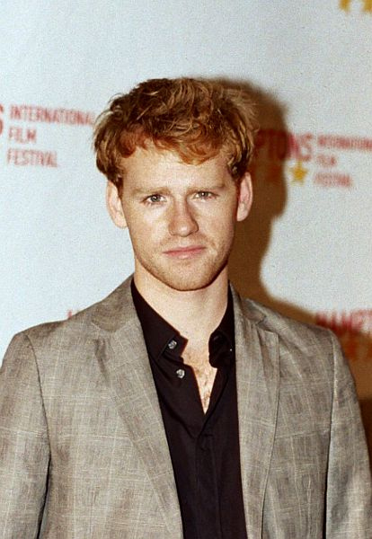 Actor Cyron Melville attends the Breakthrough Performers Reception at Georgica Restaurant in Wainscott, New York.